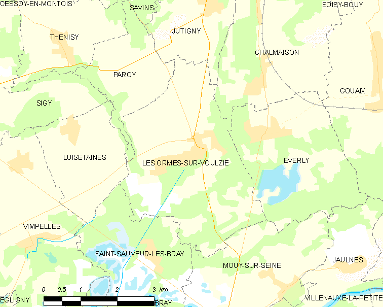 Map of French municipality Les Ormes-sur-Voulzie